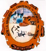 Coat of arms of San Jose de Gracia, AGS